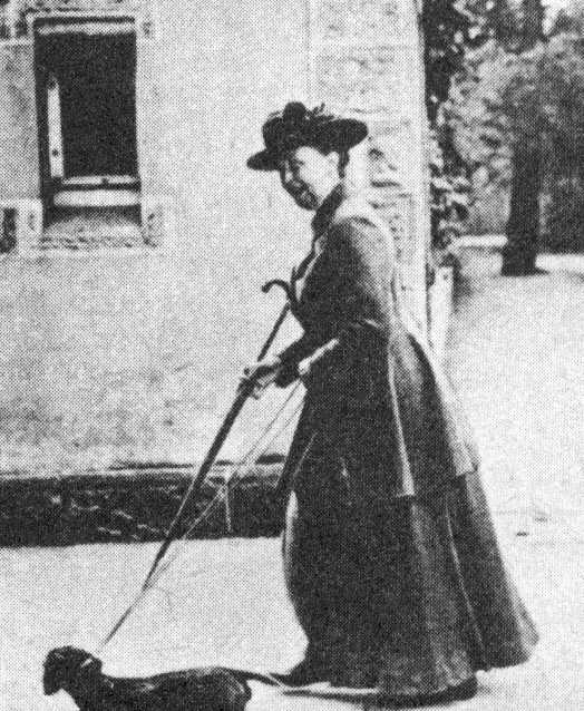 Gertrude von Hindenburg, wife of General Paul von Hindenburg, de facto Commander in Chief of the German army during World War I and German Reichspresident from 1925 to 1934.